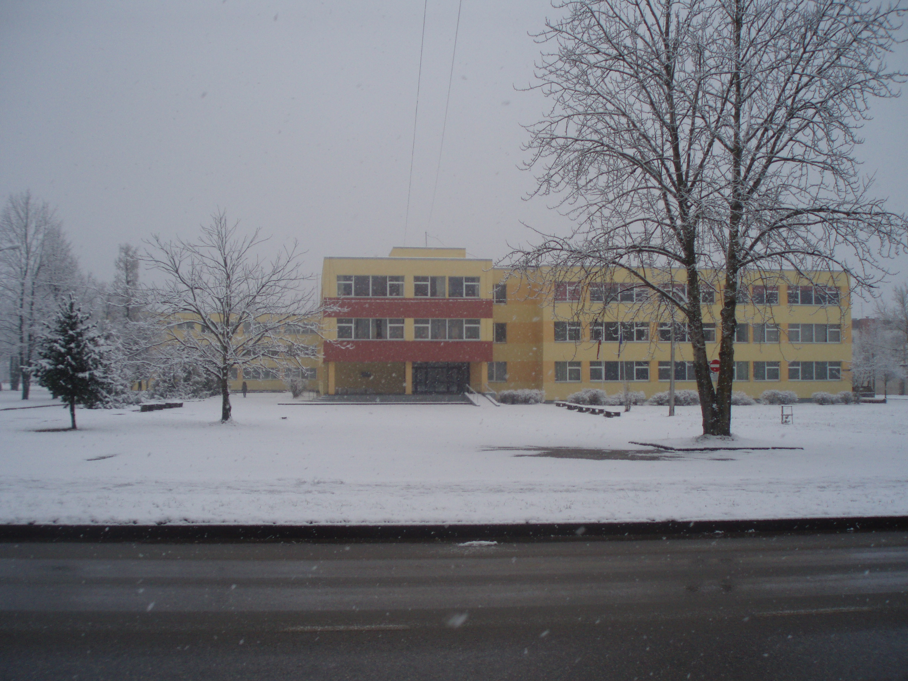 Rēzekne Secondary School Nr. 6